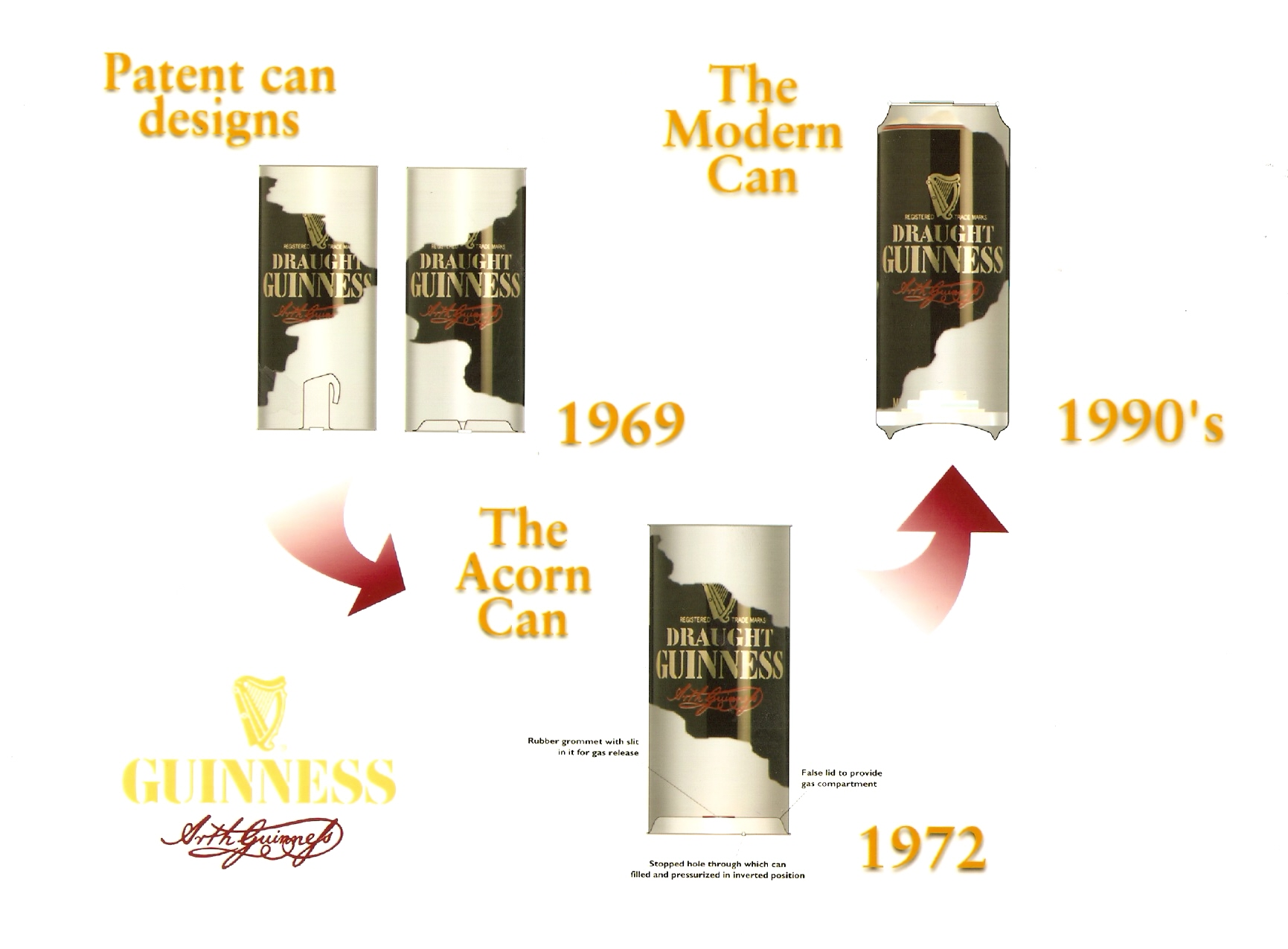 Diagrams showing sequence of designs for canned draught Guinness